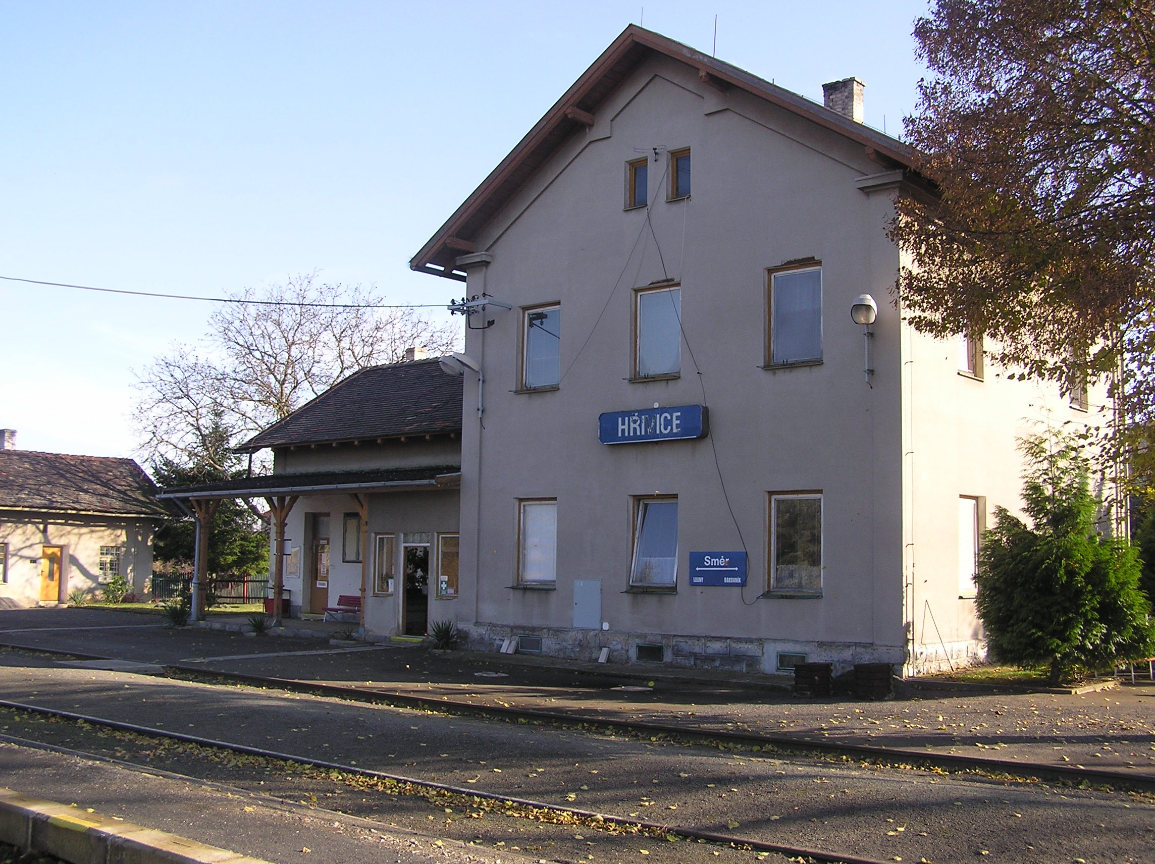 Train station in Hřivice